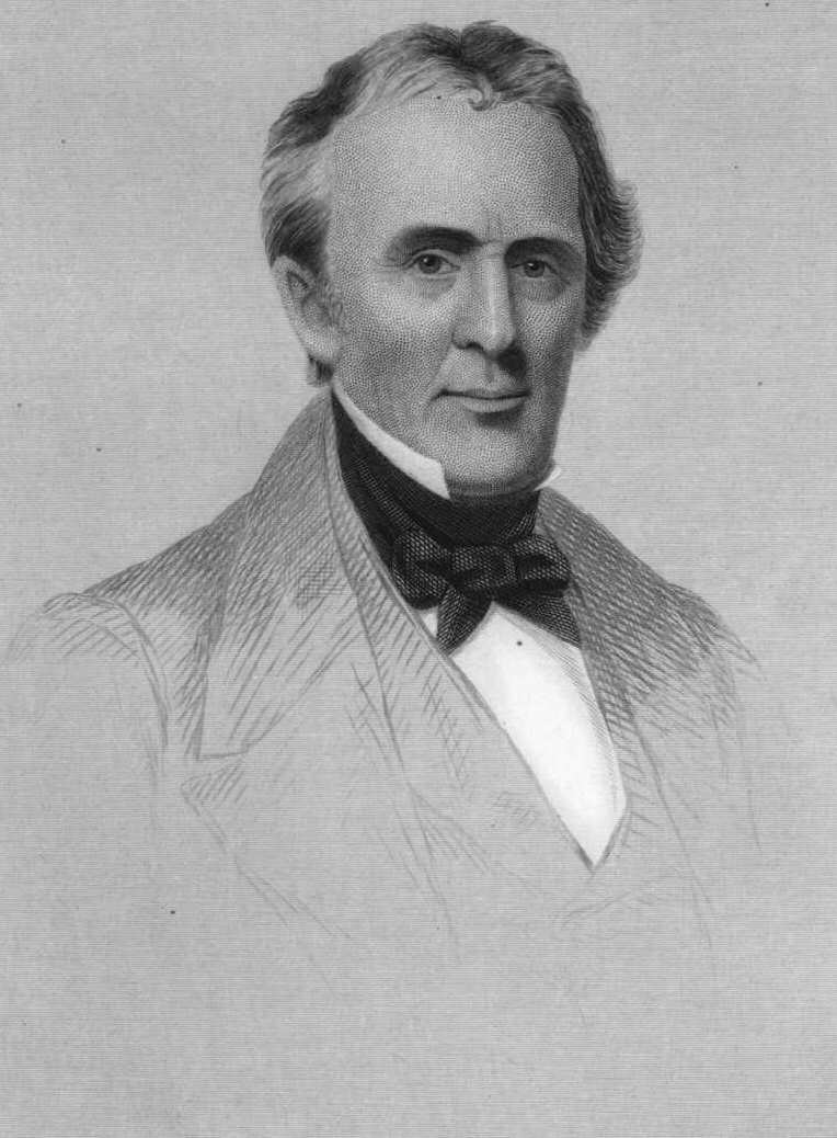 From here Category:United States history images